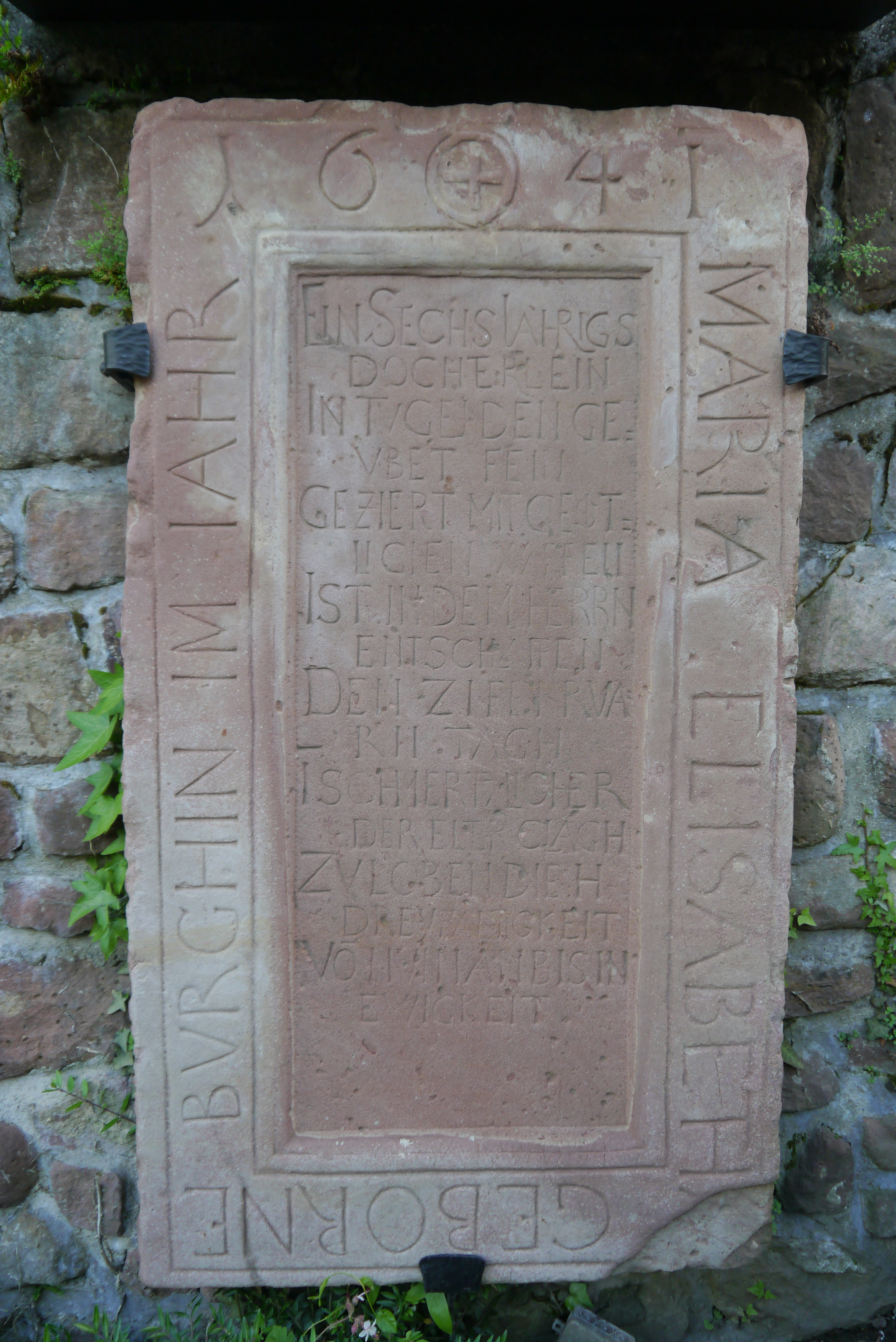 Tomb slap (1641), found in 2009 at St. Gallus Ladenburg, Germany